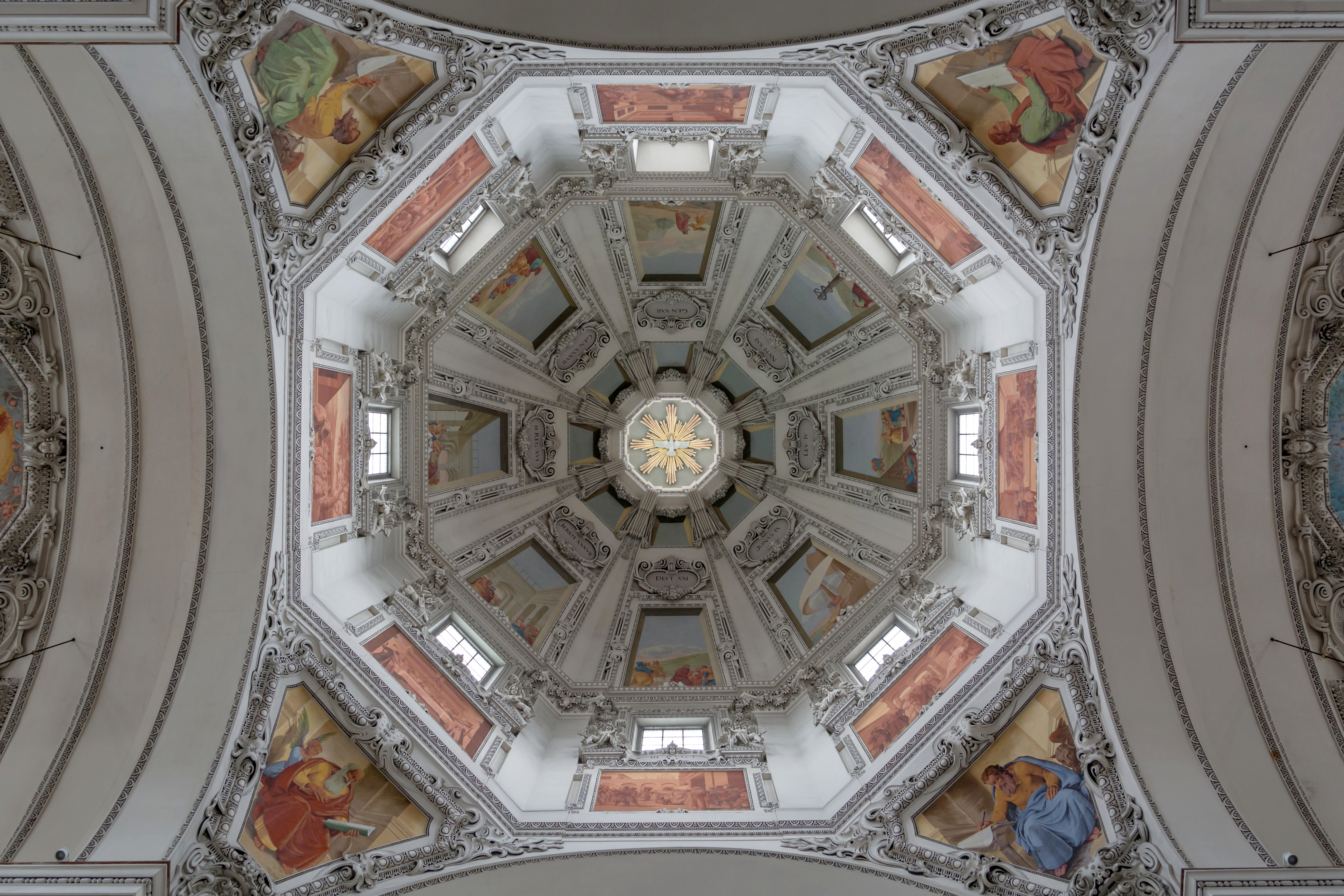 The cupola of Salzburg cathedral was re-erected after a hit by a bomb in 1944.